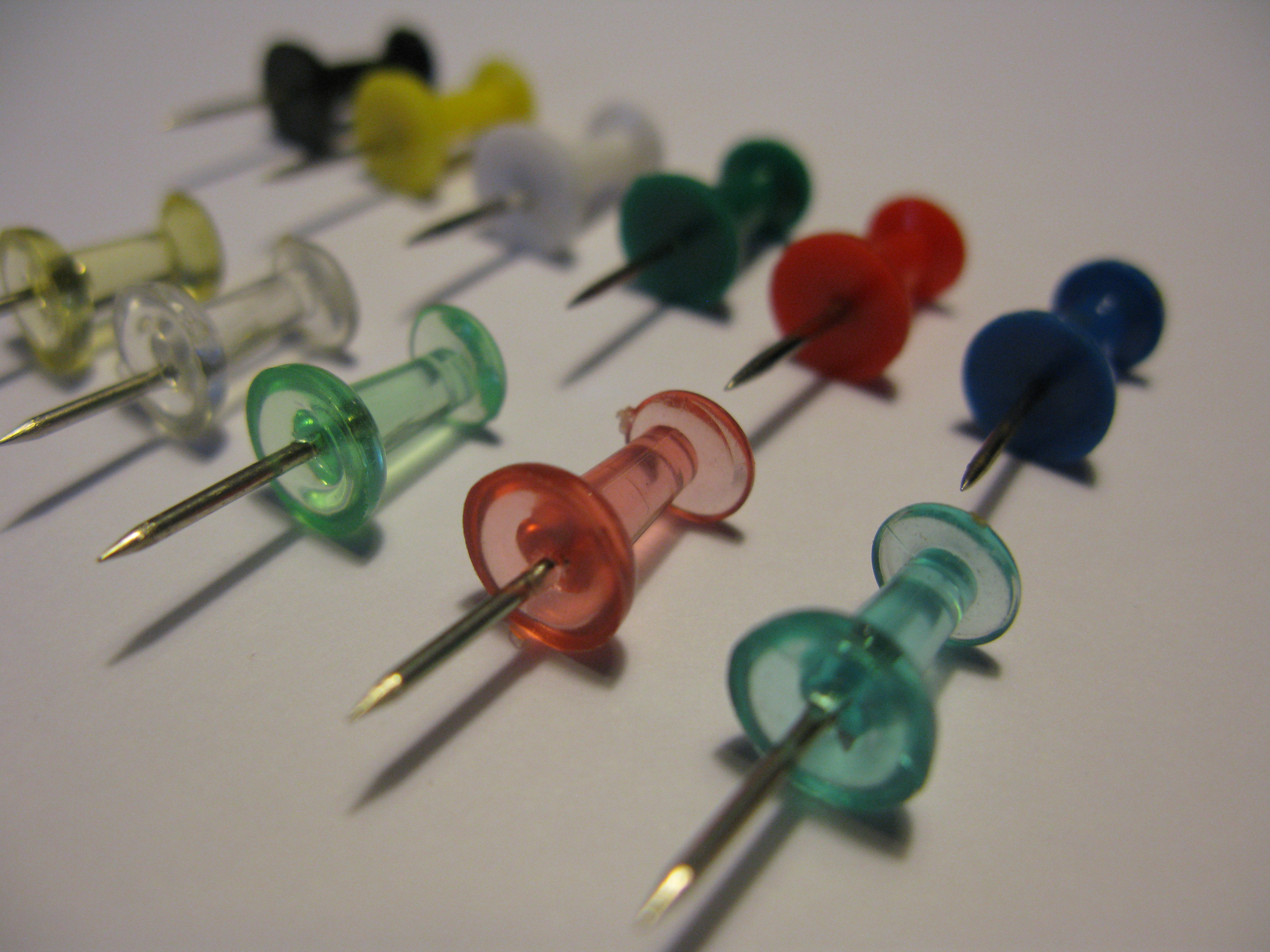 Drawing pin.